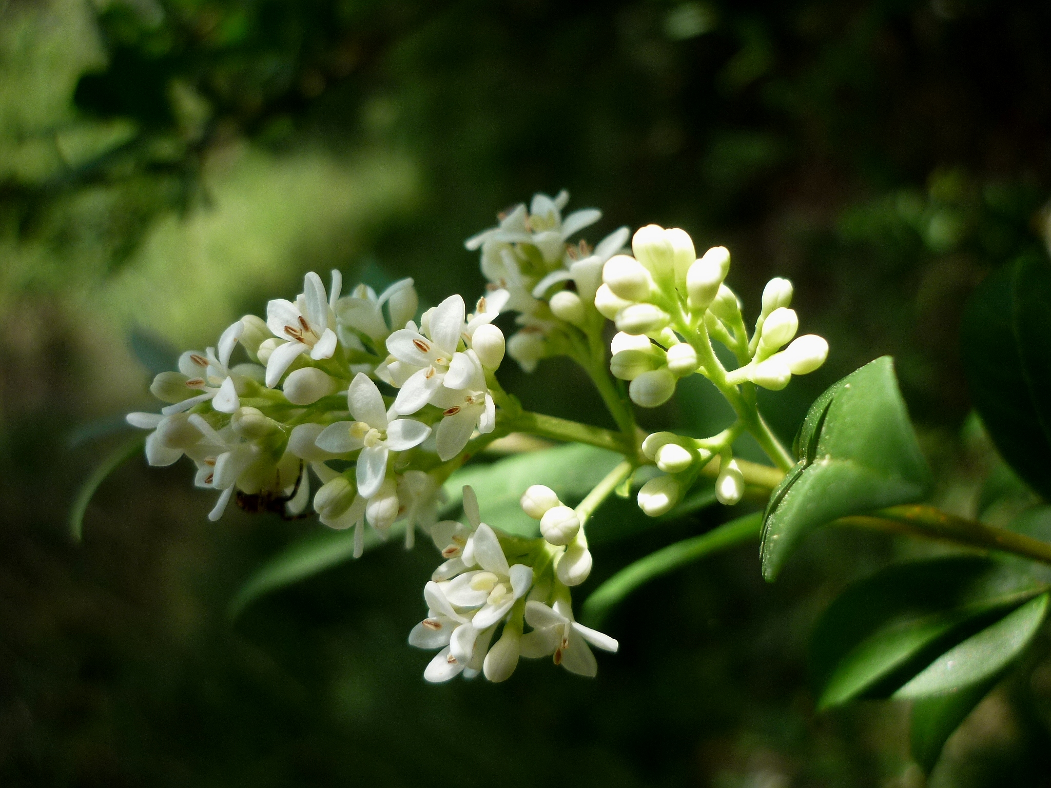 Ligustrum vulgare. In Torà (Segarra- Catalunya). On 560 m. altitude